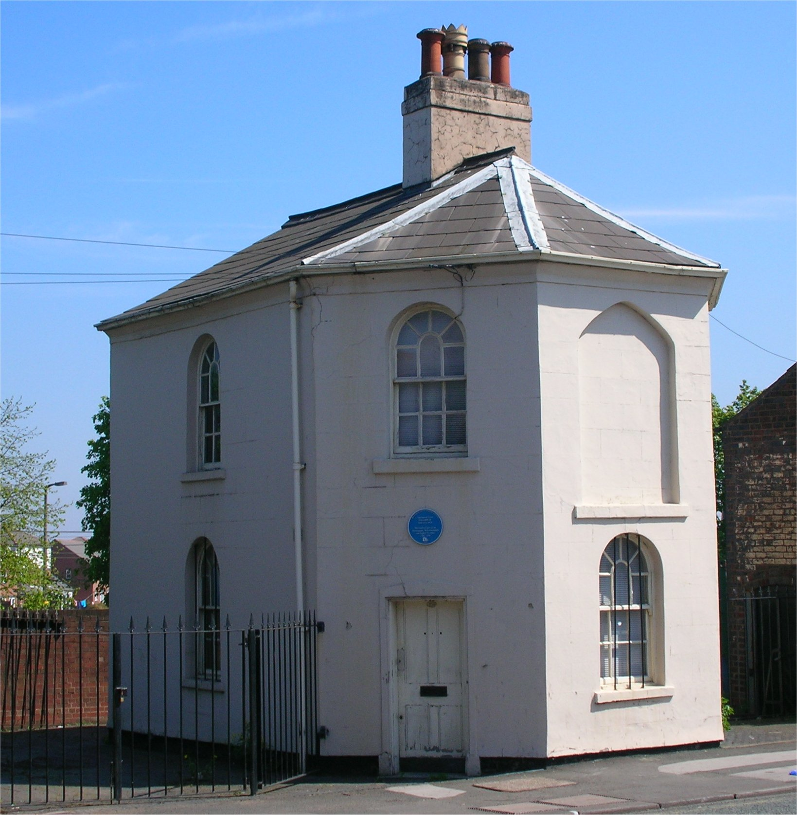 The old turnpike toll house in Smethwick, West Midlands, England. Designed by Yeoville Thomason. Grade II listed (IoE 219305). Photographed by me 2 May 2007. Oosoom)